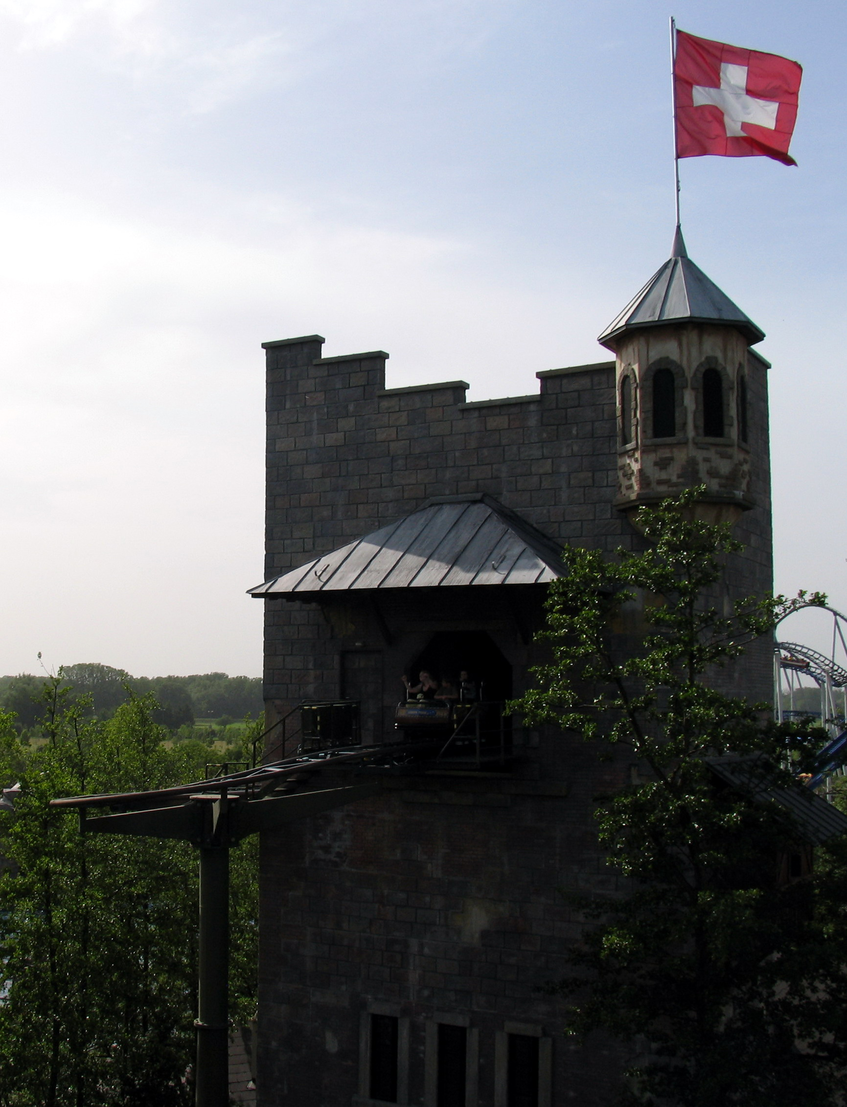 Roller coaster Matterhorn-Blitz at Europa-Park, Rust, Germany